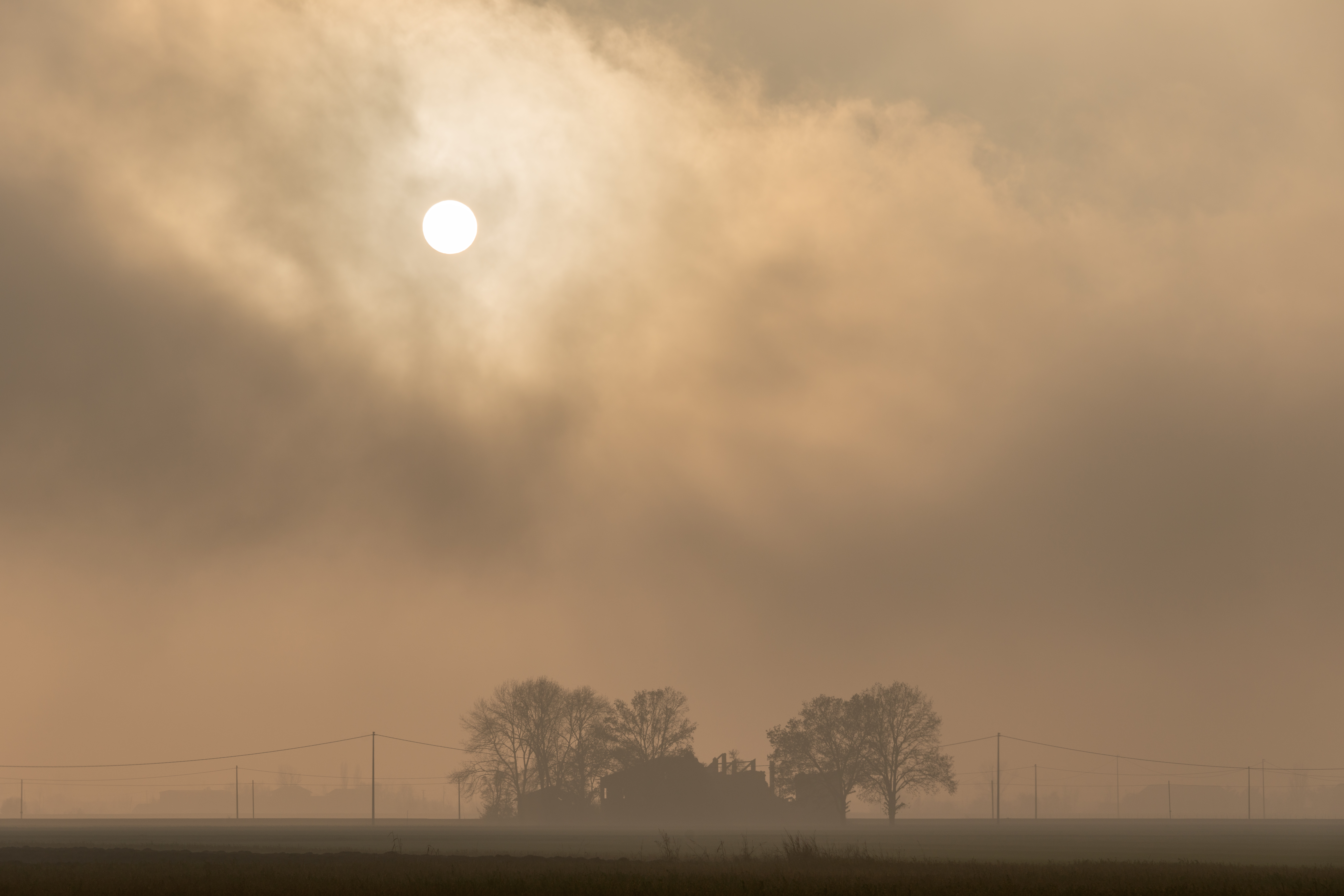 Fog - Novellara, Reggio Emilia, Italy